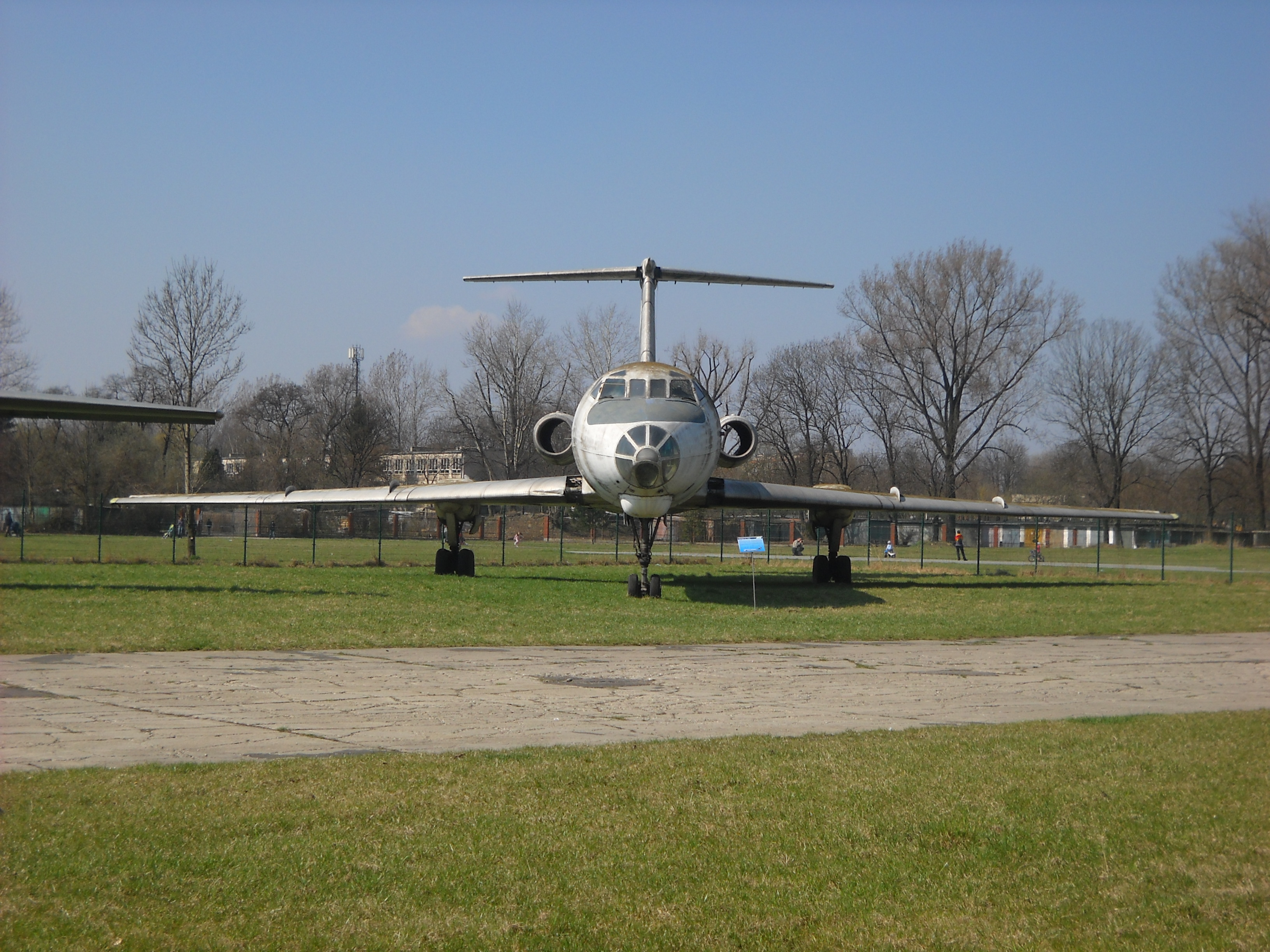 Former LOT Polish Airlines Tupolev Tu-134A stored at Cracow-Czyżyny Airport.